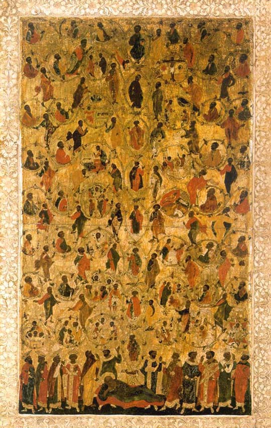 Genealogy of Jesus (russian icon)